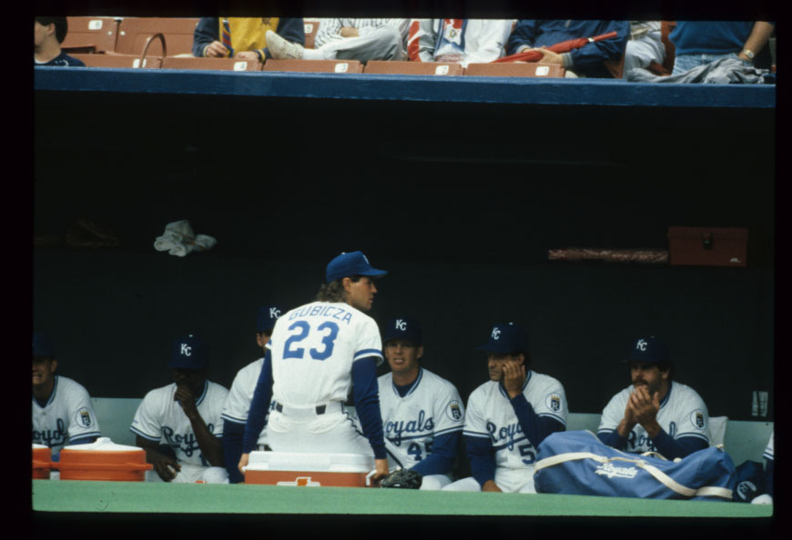 Kansas City Royals player Mark Gubicza sits in dugout with teammates. Image Number: Tourism(B)_012-02362 Institution: Missouri State Archives